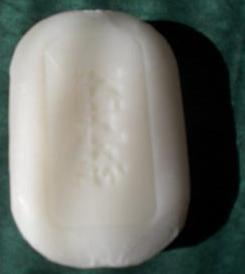 A picture of a bar of Castile soap.